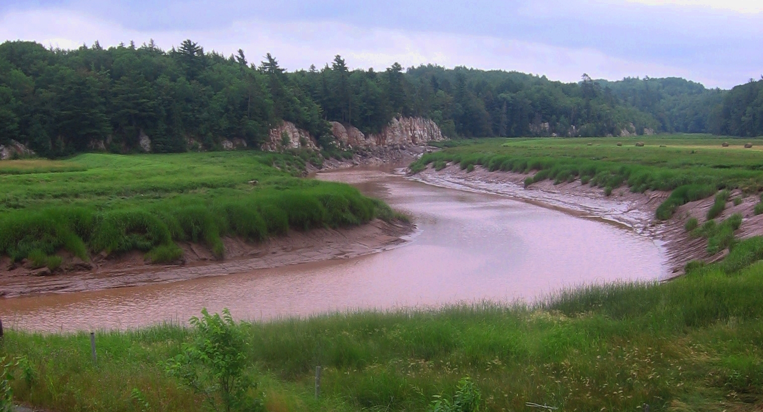 View of a bend in the lower St. Croix River, Nova Scotia